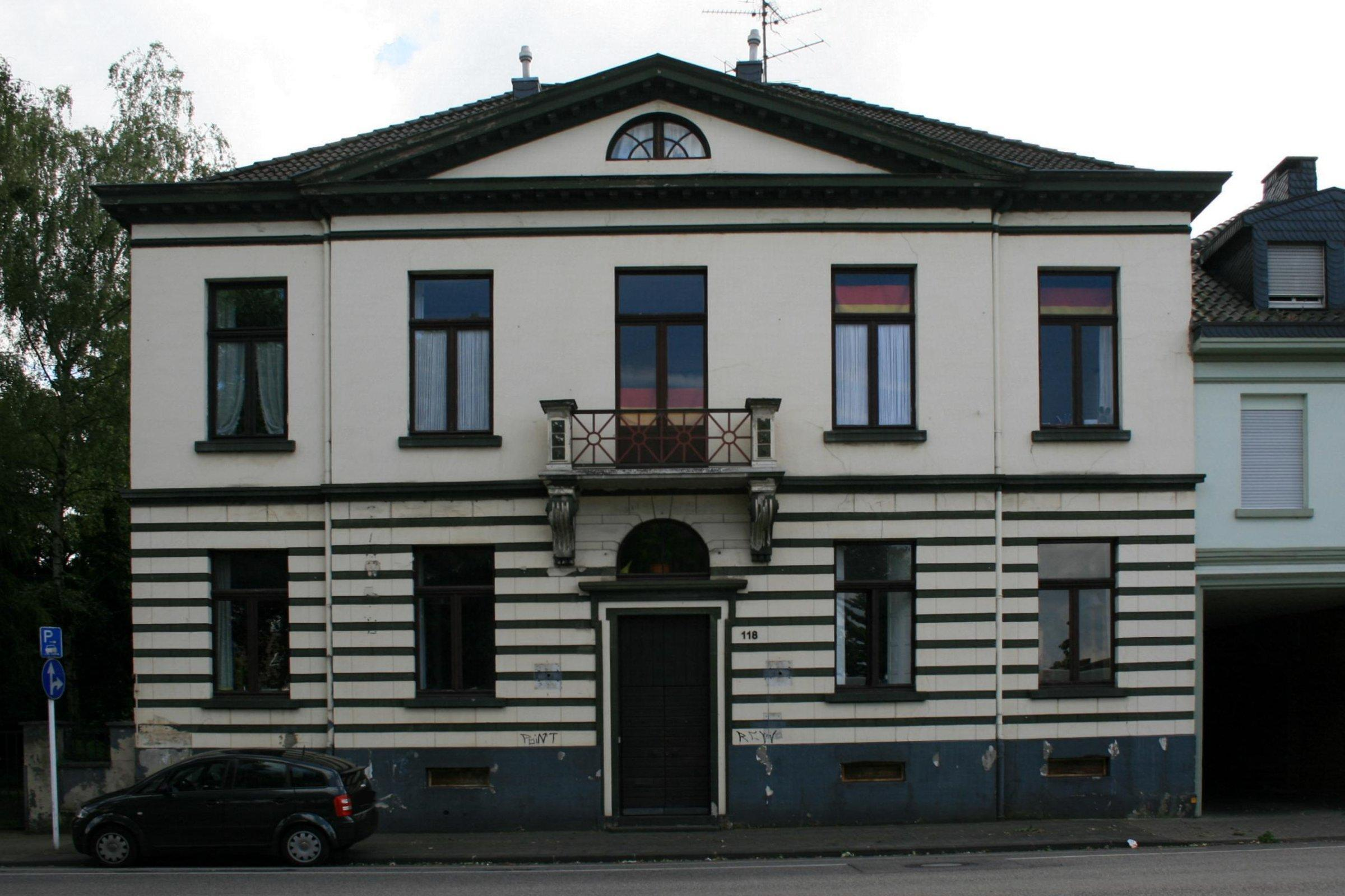 Cultural heritage monument No. D 001 in Mönchengladbach